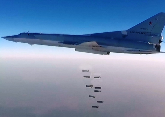 Tu-22M3 of Russian Air Force strikes on terrorist targets "Islamic state" in Syria